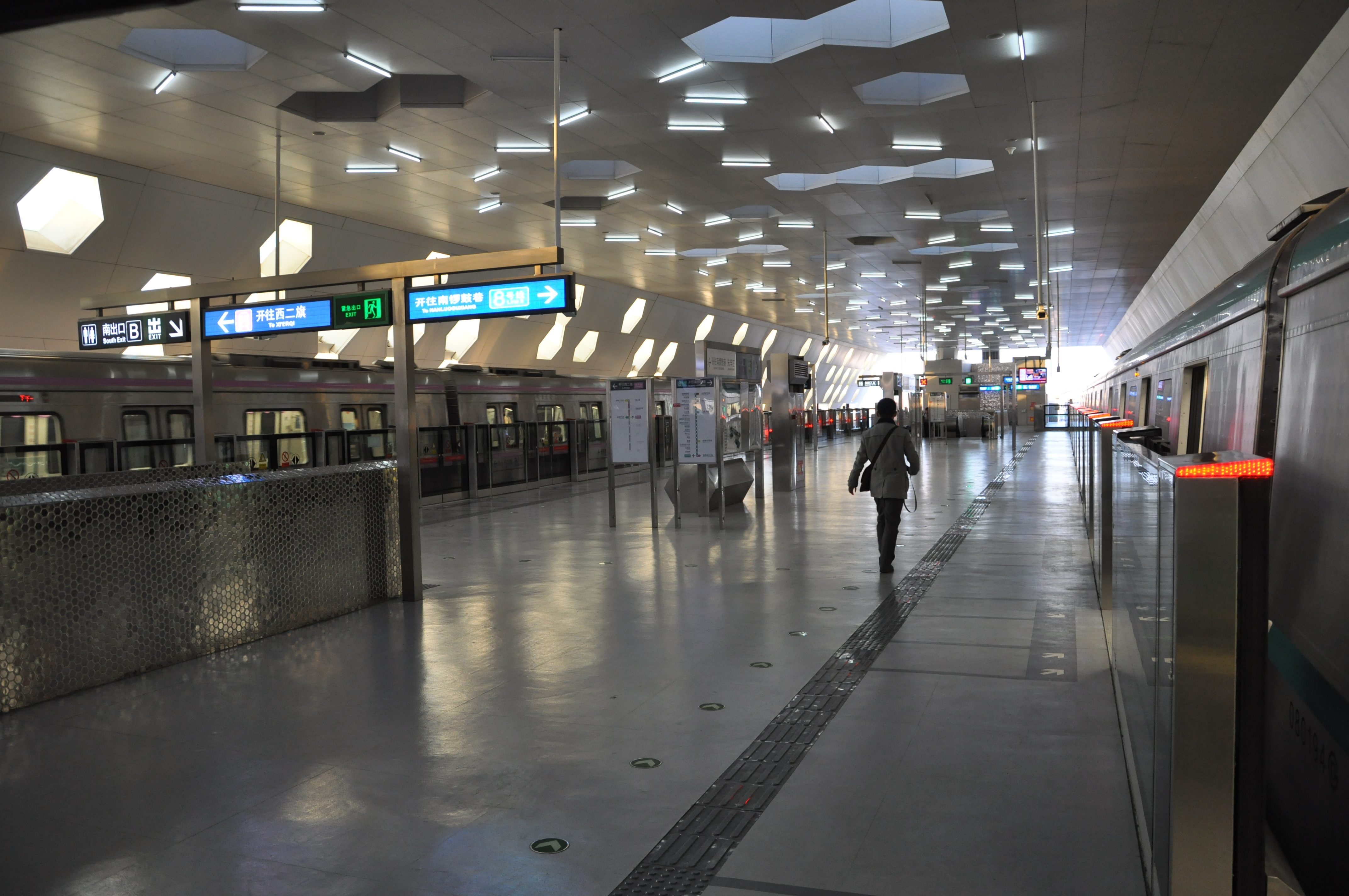 Platform of Zhuxinzhuang station, Beijing Subway. Both the two sides of the platform stopped a train. On the left is Changping line, with pink decoration; on the right is Line 8, with green decoration.